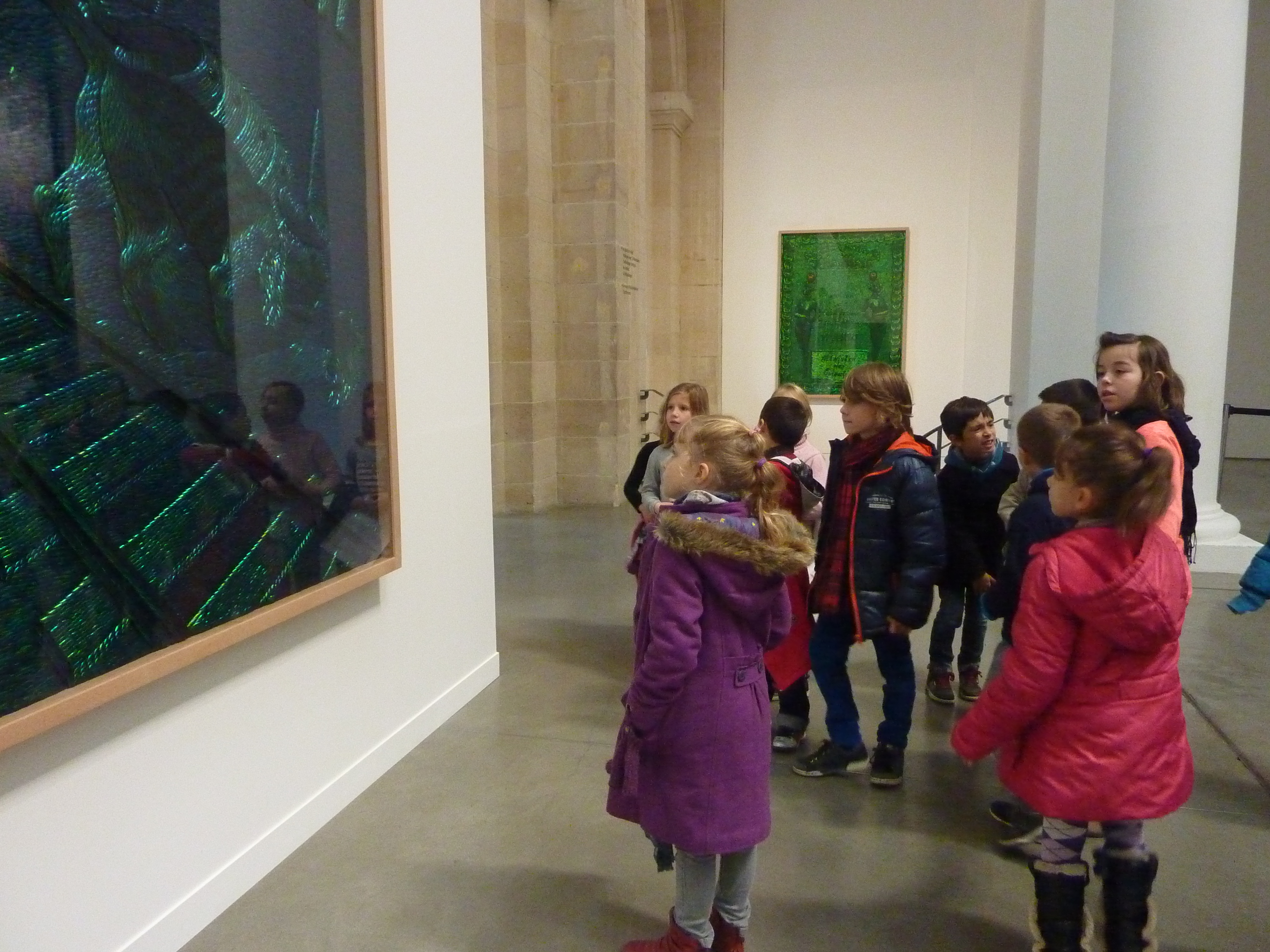 Pupils of a school of Lomme (Roland Lamartine) in a Field trip in the Palais des Beaux-Arts de Lille (Museum)